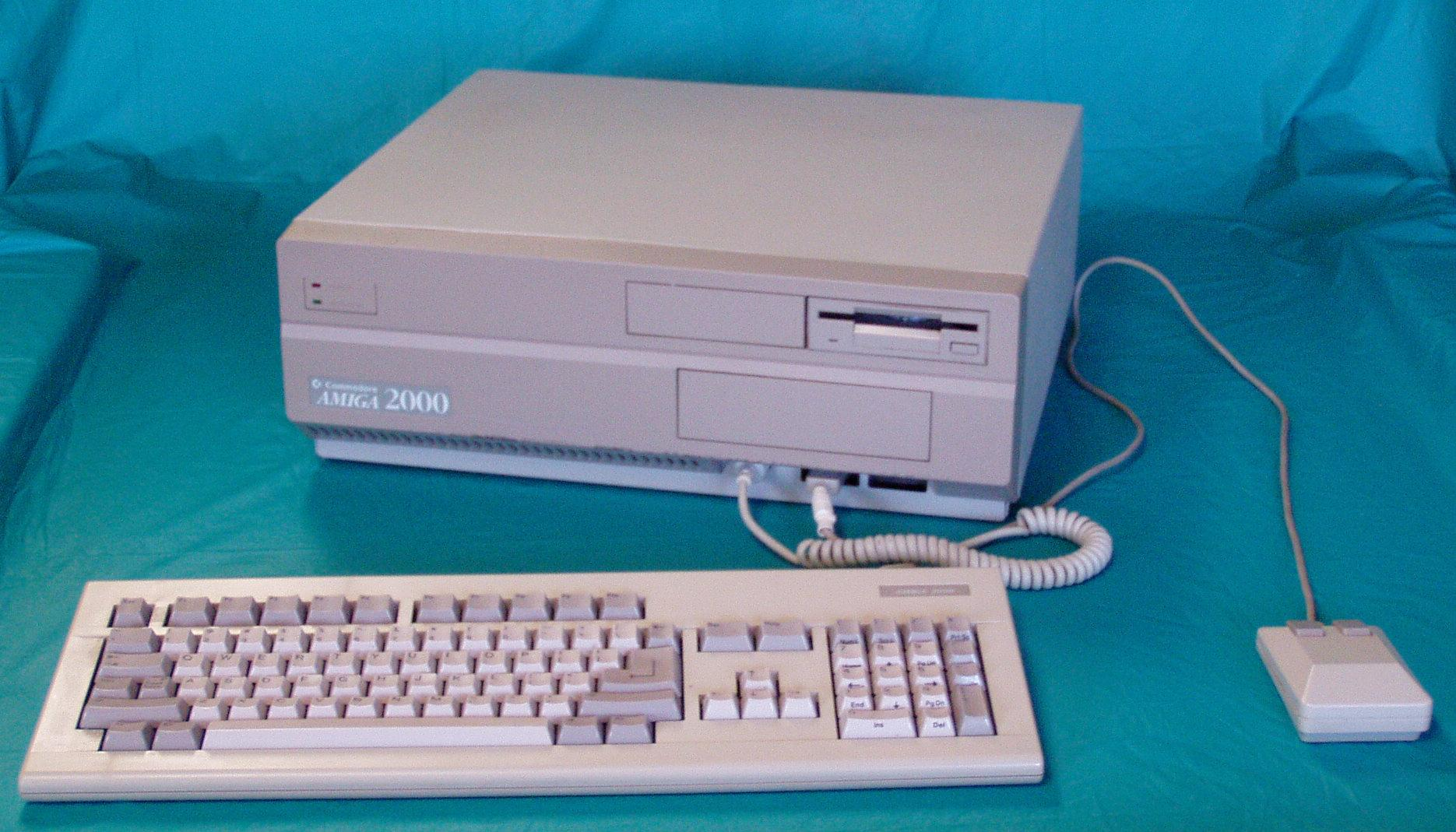 Amiga 2000 desktop personal computer